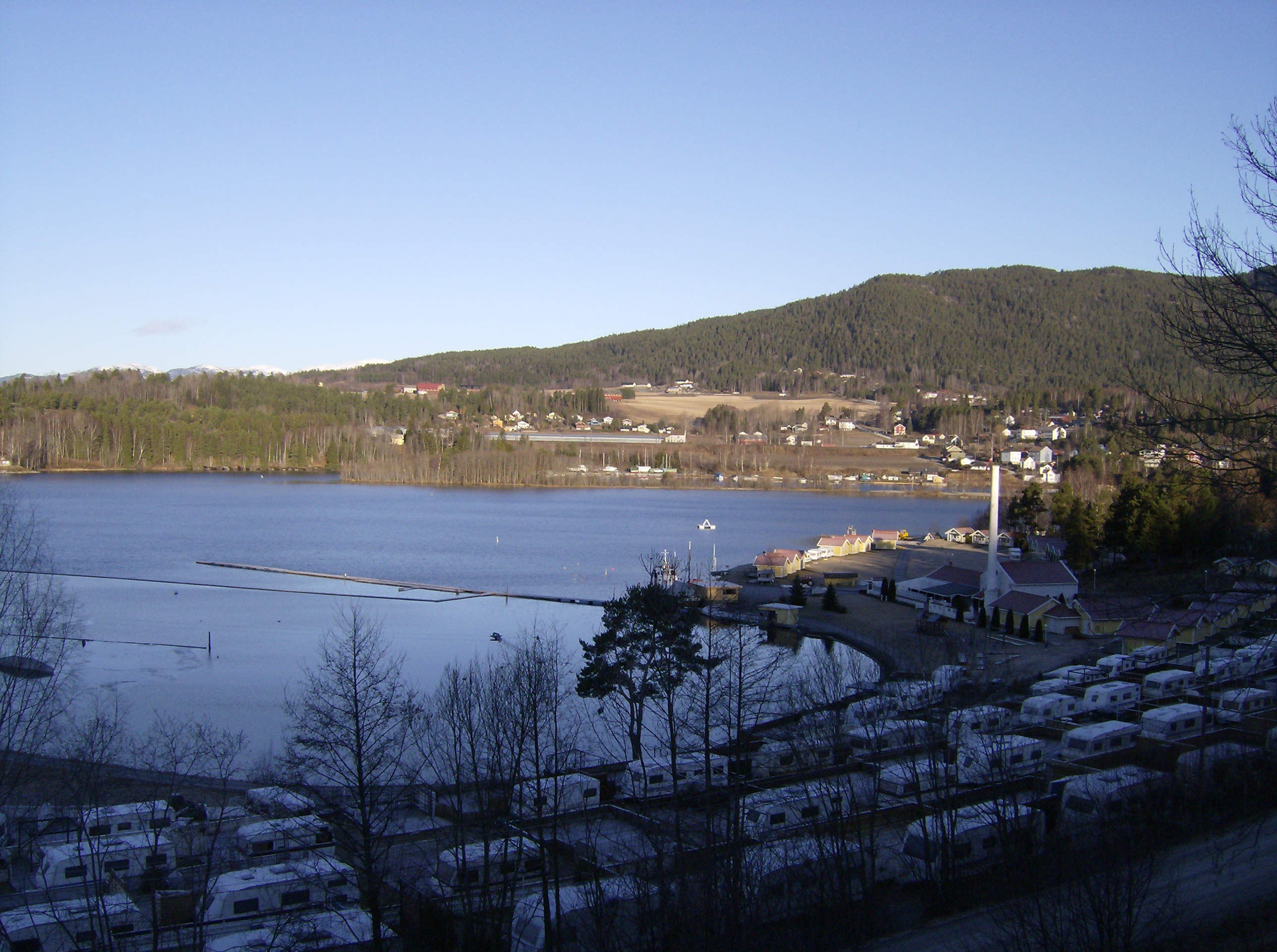 Lake Norsjø near Gvarv in Norway